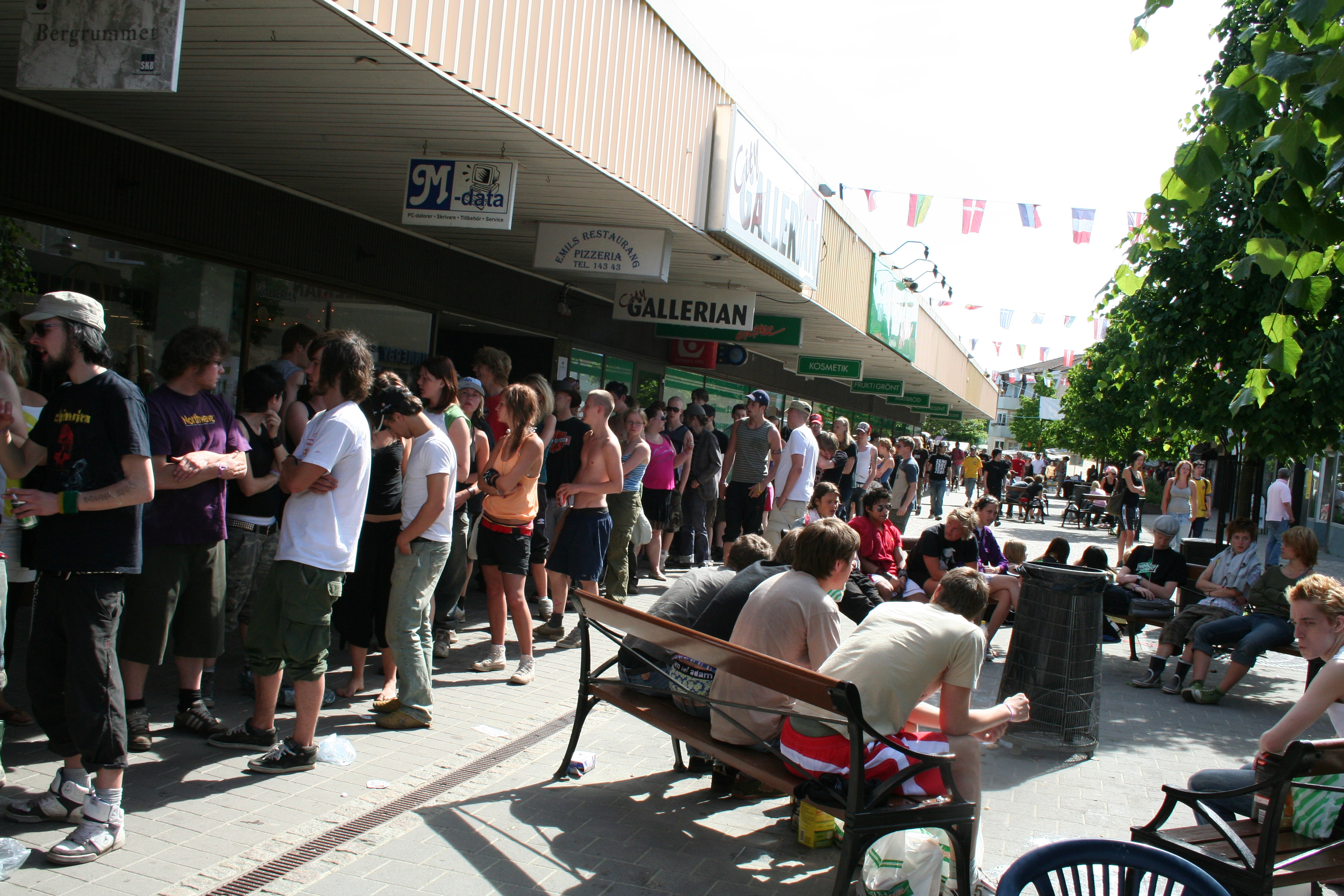 The queue to Systembolaget, the only place in Hultsfred where you could pick up hard liquor. Unfortunately you have to wait an hour and a half to get in.